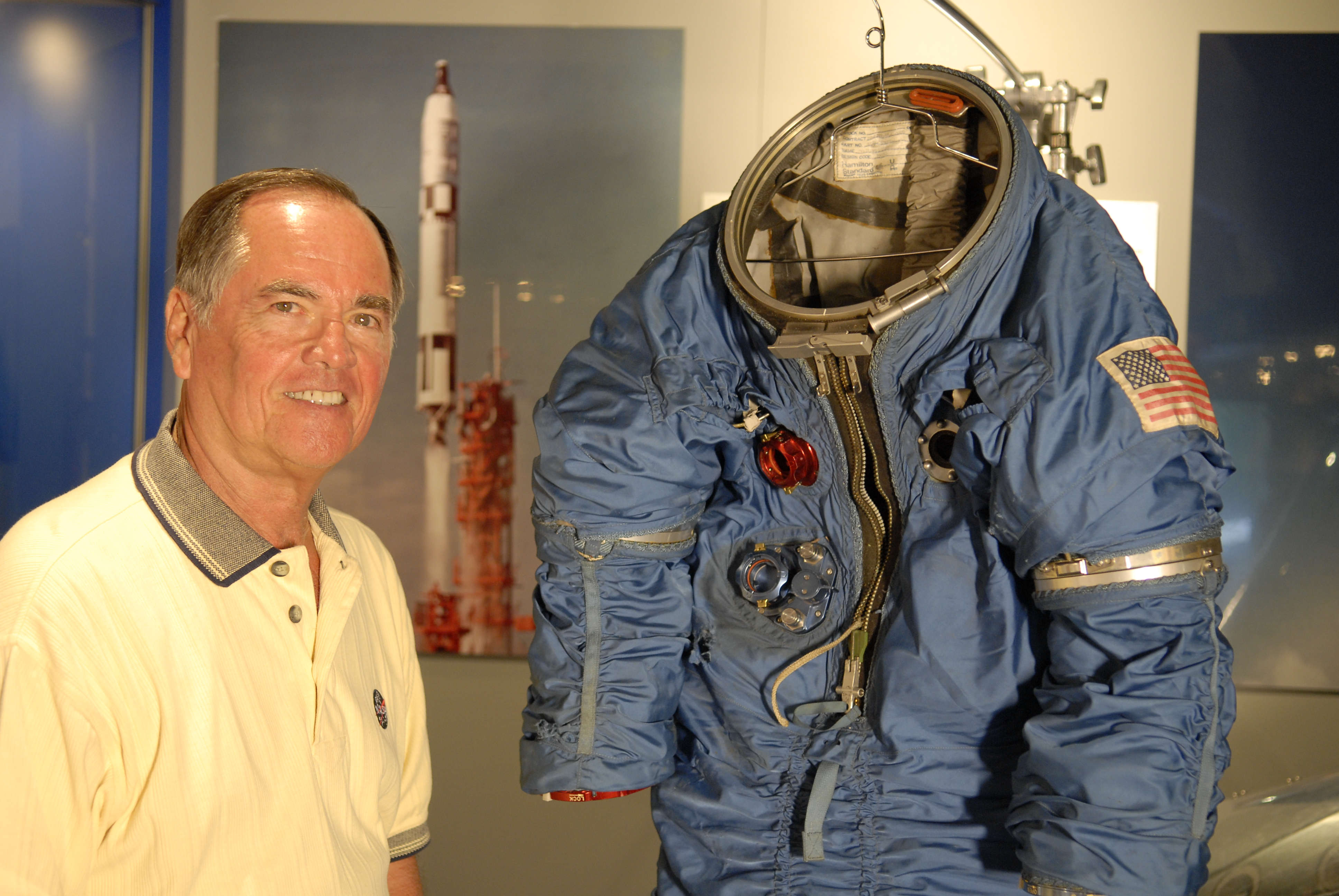 Astronaut Bob Crippen examines a spacesuit designed for the Air Force's Manned Orbiting Laboratory program. The spacesuit and another just like it were found in 2005 at Complex 5/6. Crippen was selected as a MOL astronaut before the Air Force program was cancelled. He flew on the first space shuttle mission for NASA.